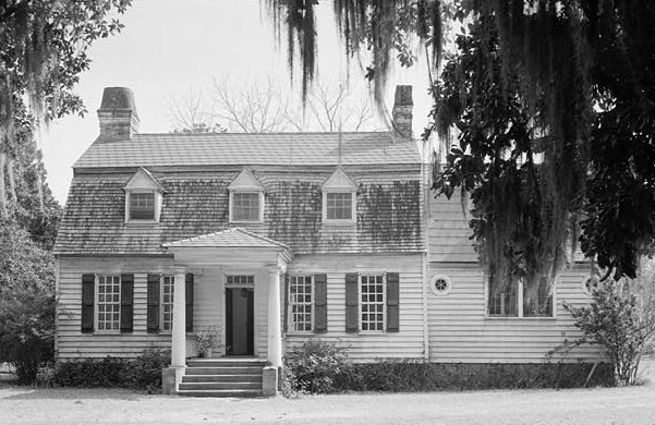 Oakland Plantation, Mount Pleasant vicinity, Charleston County, South Carolina